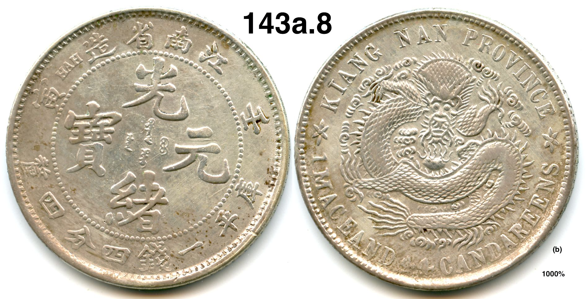 143a.2b 20 Cents, CD1899, Kuanag-hsu, Dragon, Variety: Large-head Dragon with spiky tail, long horns from ornaments(?) at sides. LM225v, W810, K77? AEF, lt. scs. Obv. $75.00 Vy 143a.5 20 Cents, CD1900, Kuanag-hsu, Dragon, Variety: Small-head dragon; Fewer spikes on body. LM234, W822-23 EF+ $150.00 DC 143a.6 20 Cents, CD1901, Kuanag-hsu, Dragon, Variety: No HAH LM238, K83 EF $100.00 DC 143a.6 20 Cents, CD1901, Kuanag-hsu, Dragon, Variety: No HAH LM238, K83 VF, scs rev. $28.50 Vy 143a.7 20 Cents, CD1901, Kuanag-hsu, Dragon, Variety: HAH LM245, K91 EF/+ $125.00 DC 143a.8 20 Cents, CD1902, Kuanag-hsu, Dragon, HAH. LM249 AEF $100.00 DM 143a.8 20 Cents, CD1902, Kuanag-hsu, Dragon, HAH. LM249 VF+ $70.00 DC.